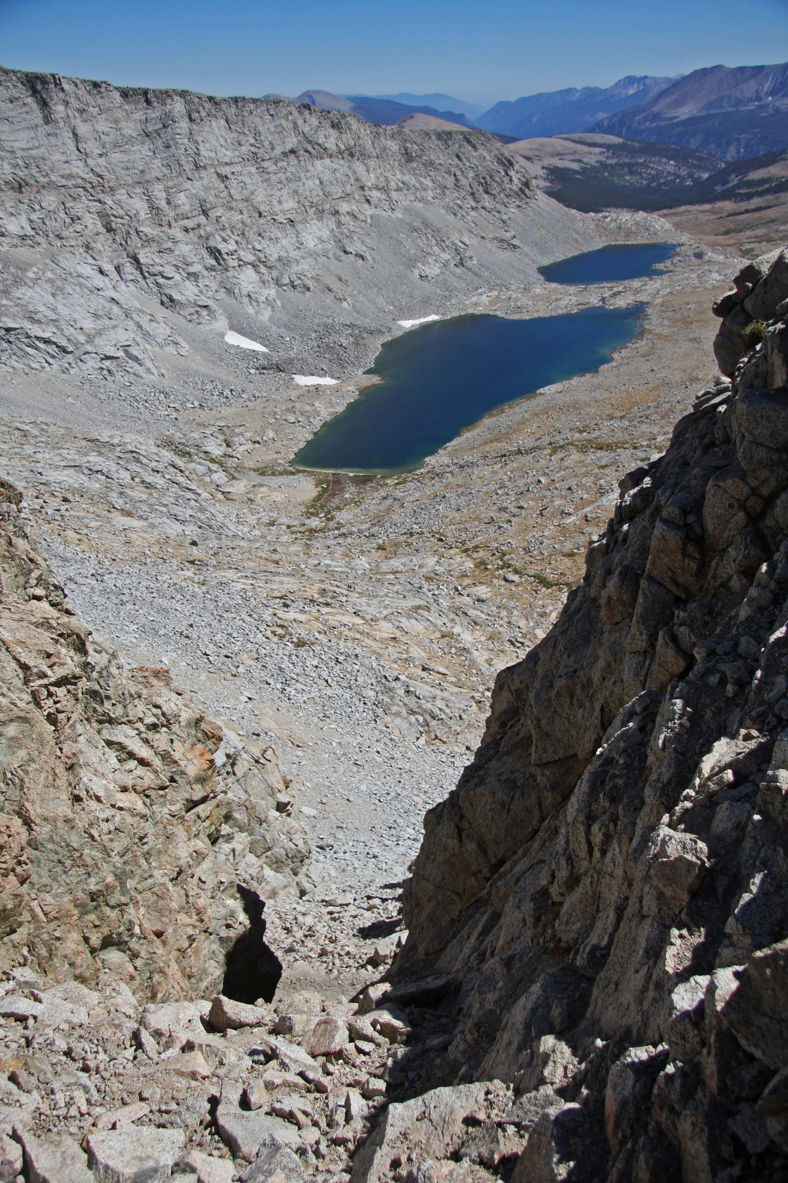 View South from Forester Pass (4,009 m (13,153 ft)), down steep chute and out to Diamond Mesa and lakes in Sequoia National Park, Sierra Nevada USA.